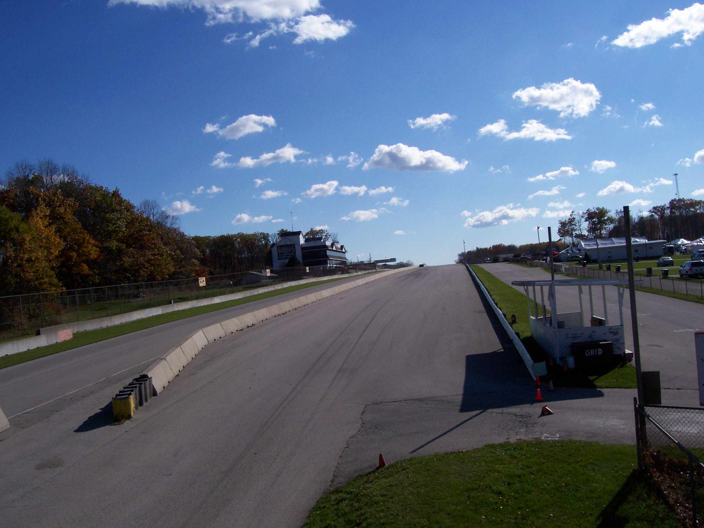 The pit lane (center) and frontstretch (left) at Road America, taken from the bridge over the frontstretch.